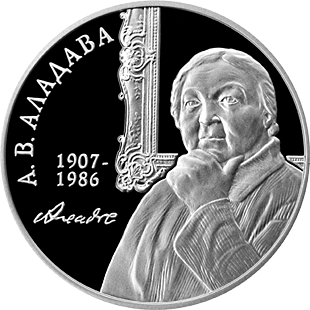 History and Culture of Belarus. Commemorative Coins "AV Aladava. 100 a year"("EV Aladova. 100 years")